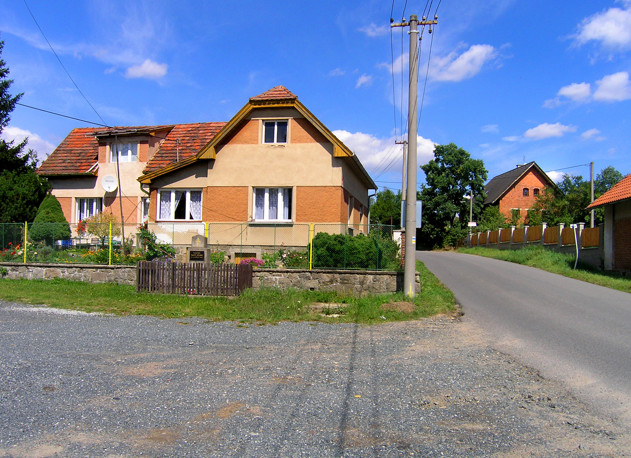 Common in Brtnice, part of Velké Popovice, Czech Republic